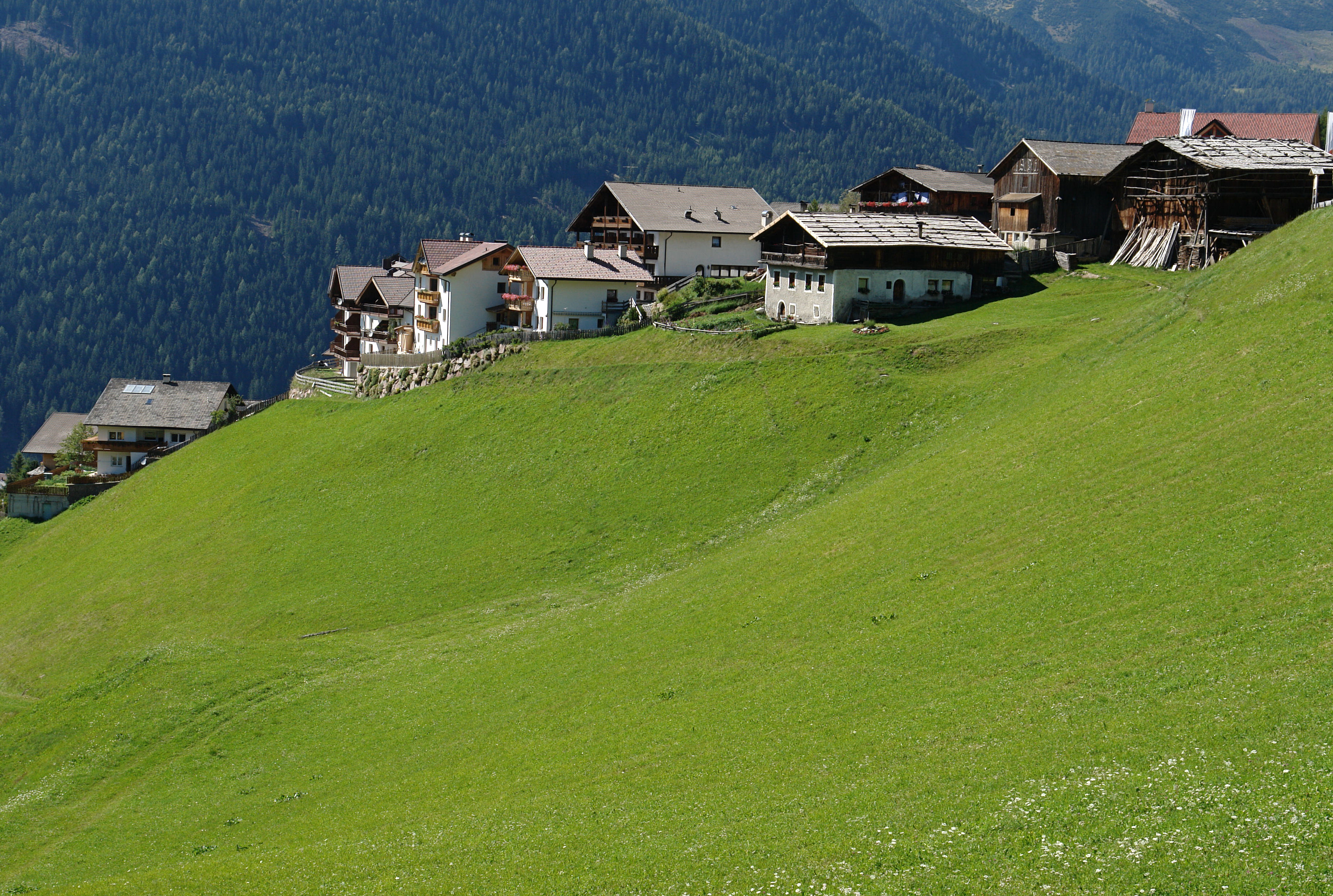 View on Reinswald / San Martino